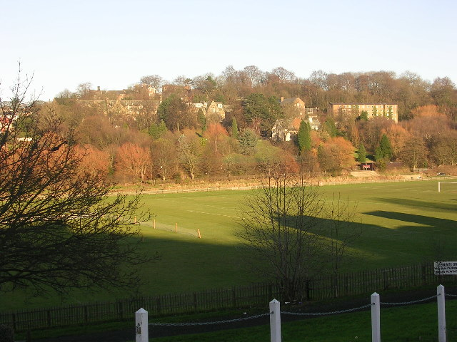 College of St Hild and St Bede, Durham. Looking across the playing fields and the river Wear to the College of St Hild and St Bede in Durham. This college, formerly an separate teacher training college is now a constituent college of the University of Durham. It stands somewhat detached from the rest of the University in the eastern part of Durham known as Gilesgate.